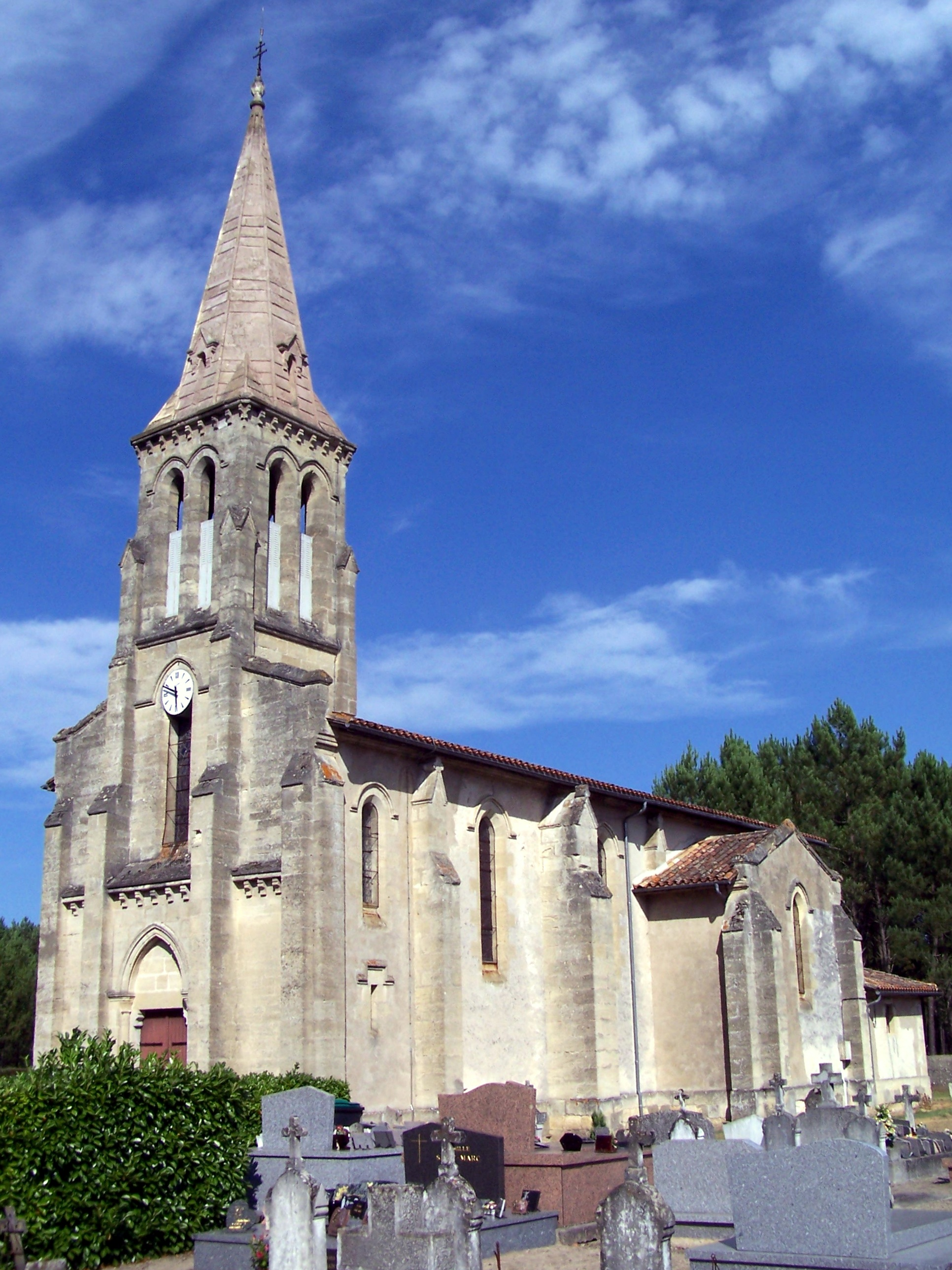 Church Saint-Pierre of Giscos (Gironde, France)